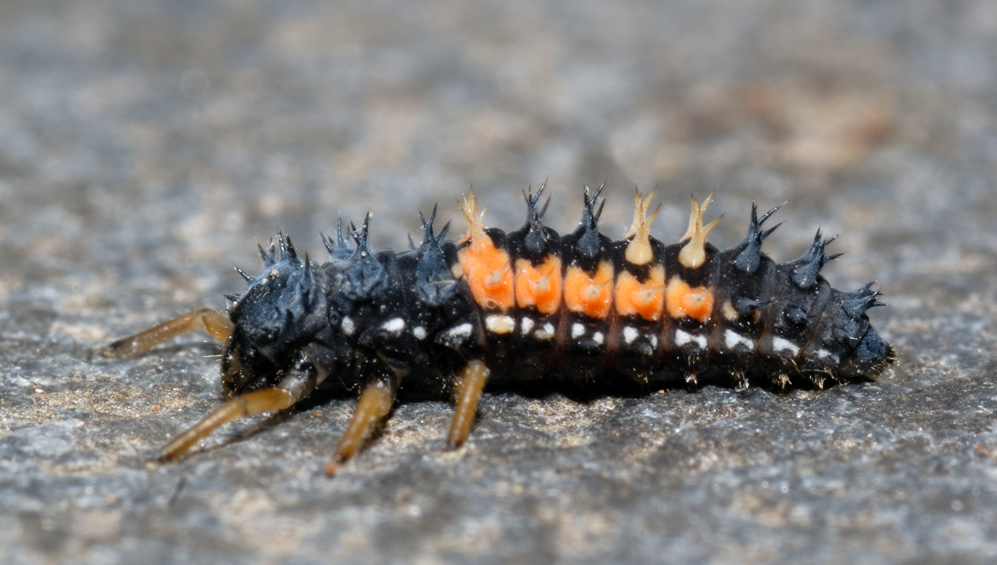 This image shows a larva of the Asian lady beetle (Harmonia axyridis).